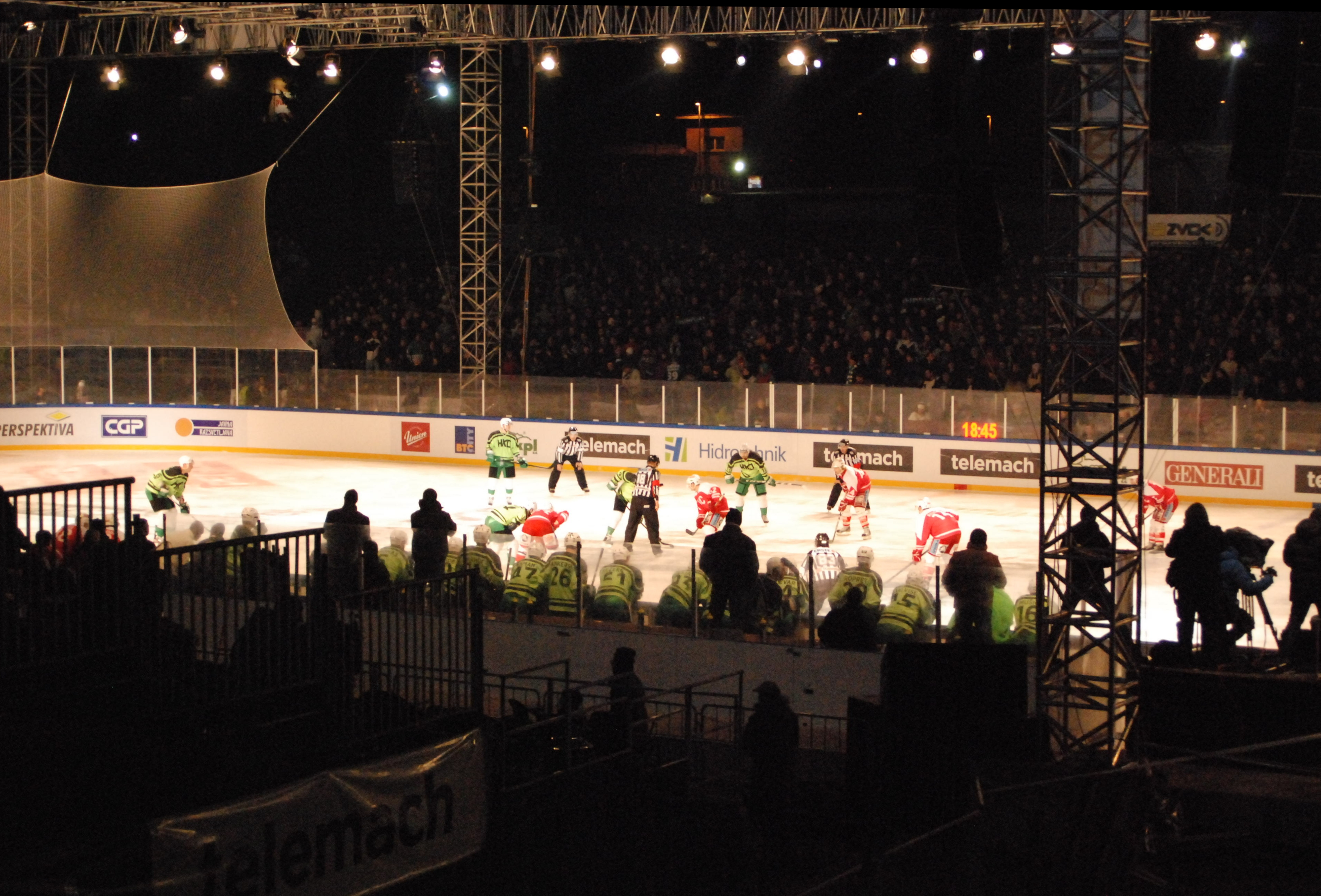 A hockey match between HDD Telemach Olimpija (Ljubljana) and EC KAC (Klagenfurt) at Plečnik Stadium in Ljubljana.